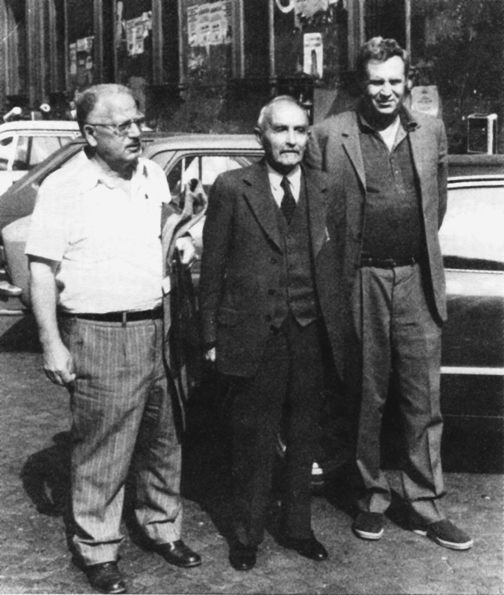 Elio Augusto Di Carlo with Edgardo Moltoni and the count Tornielli, Milan Italy 1979.